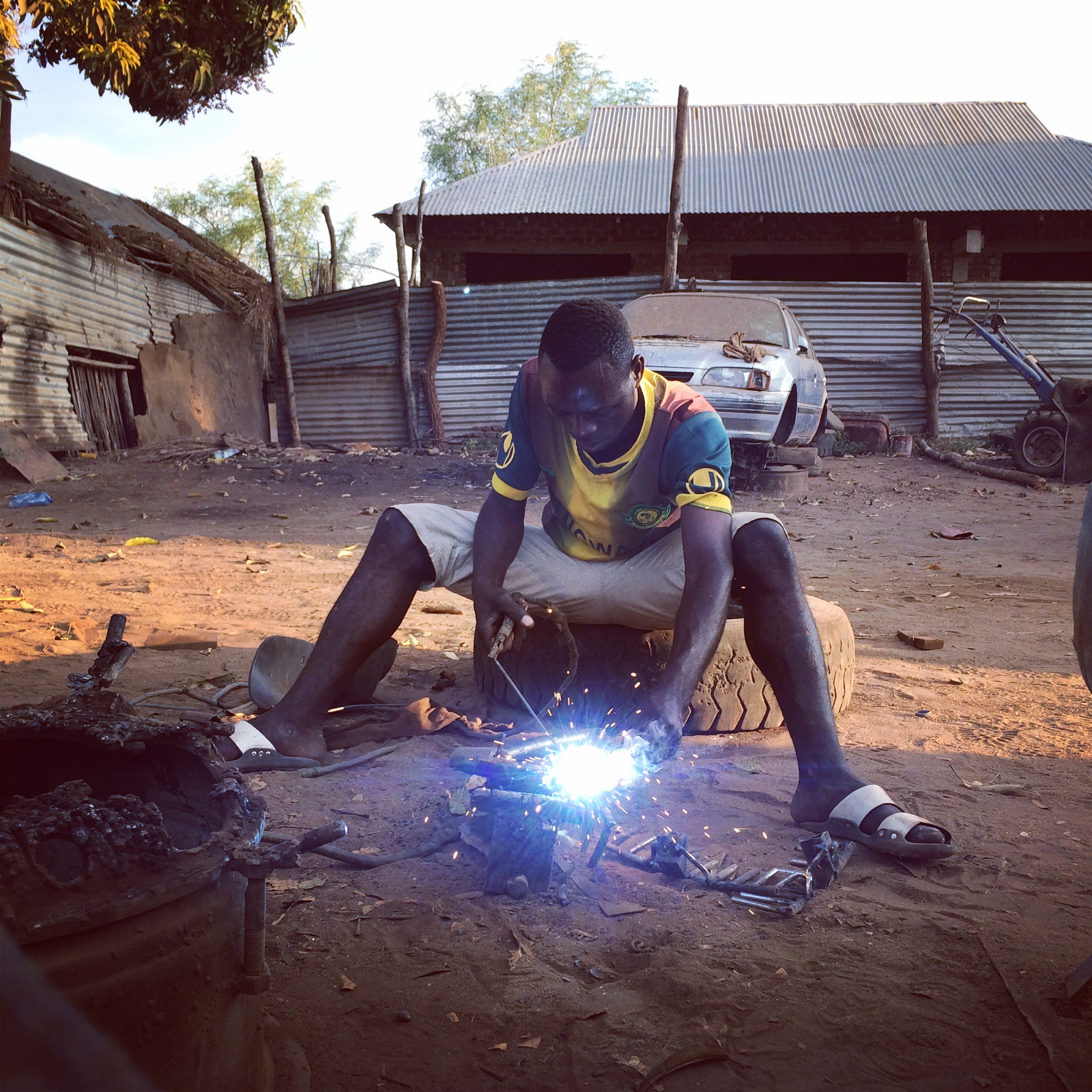 Welding is a skill, skills and knowledge are fundamental in minimizing unemployment rate in Africa. If it takes welding skills to weld a prosperous future, somebody has to do it.